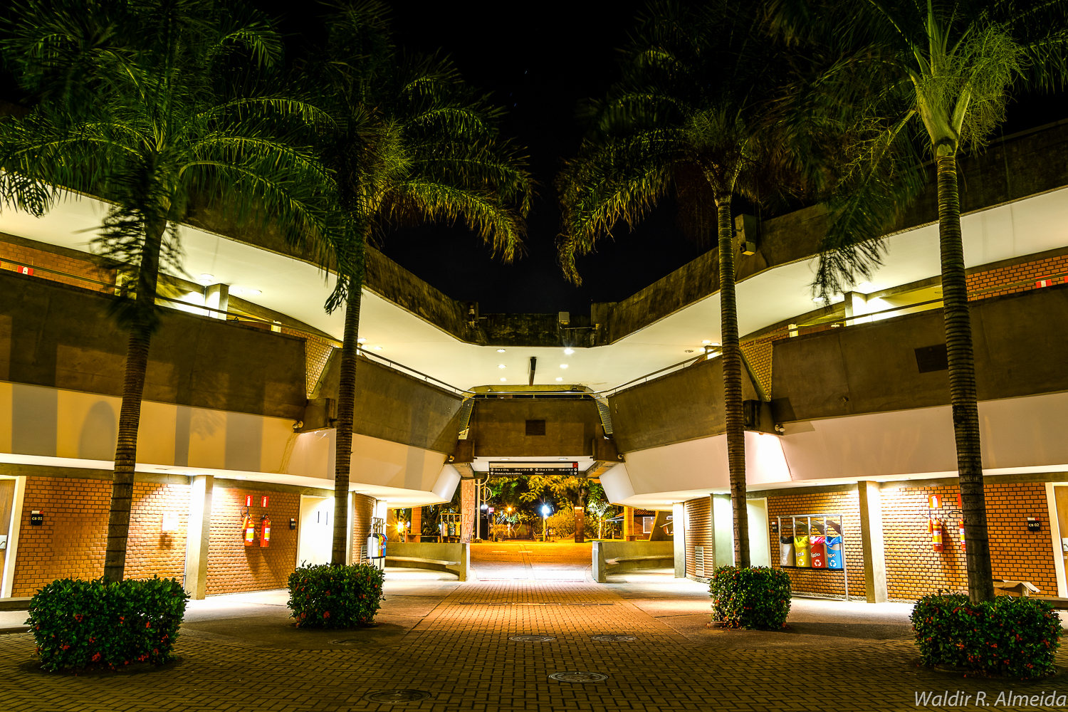 Ciclo Básico at night. State University of Campinas (UNICAMP), Campinas, Brazil.